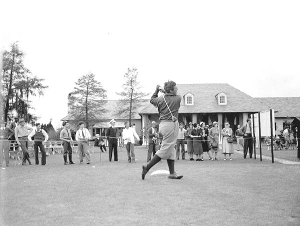 New Orleans City Park, 1938. St. John's Golf Club, Crescent City Golf Tournament, sponsored by Mayor Maestri. Exterior. 2/15/1938